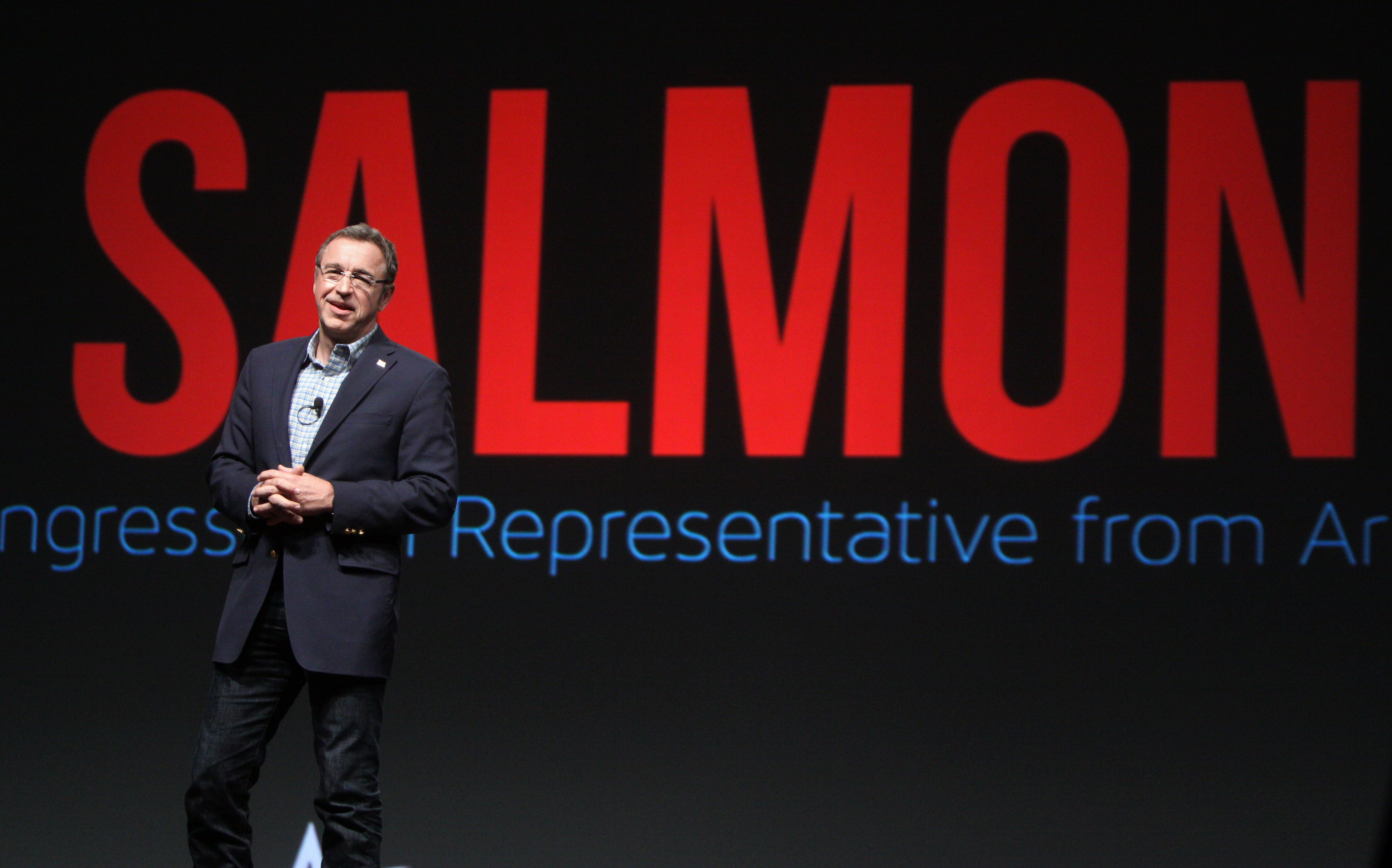 Member of the U.S. House of Representatives from Arizona's 5th district & 1st district; Chair of the Arizona Republican Party